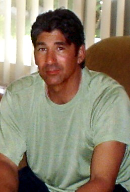 Anthony Telford relaxing in San Jose, CA, Sept. 2008.